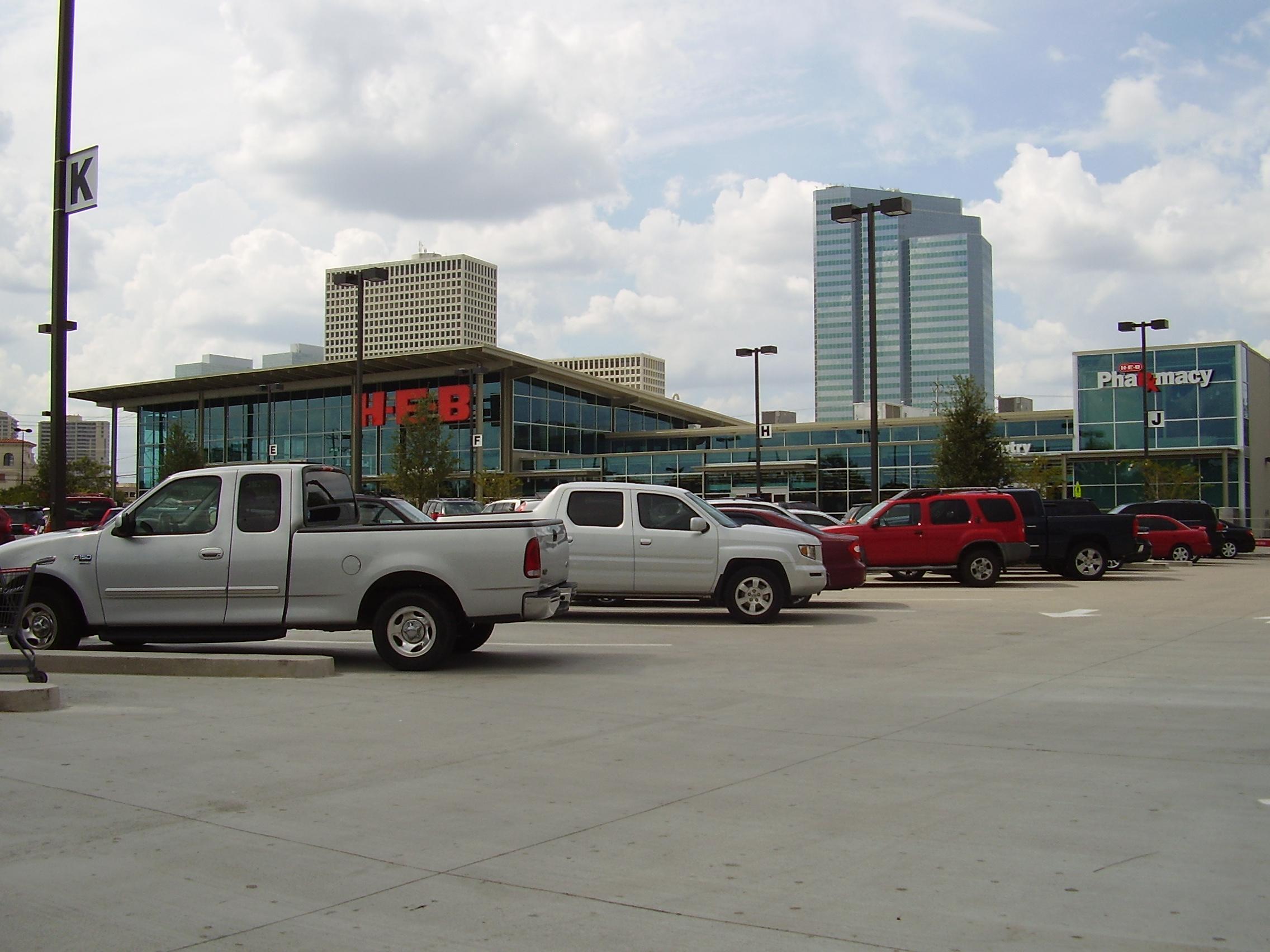 H-E-B Houston 51 - Buffalo Market #599